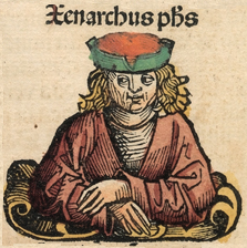 This is a part of a scan of an historical document: Title: Schedelsche Weltchronik or Nuremberg Chronicle